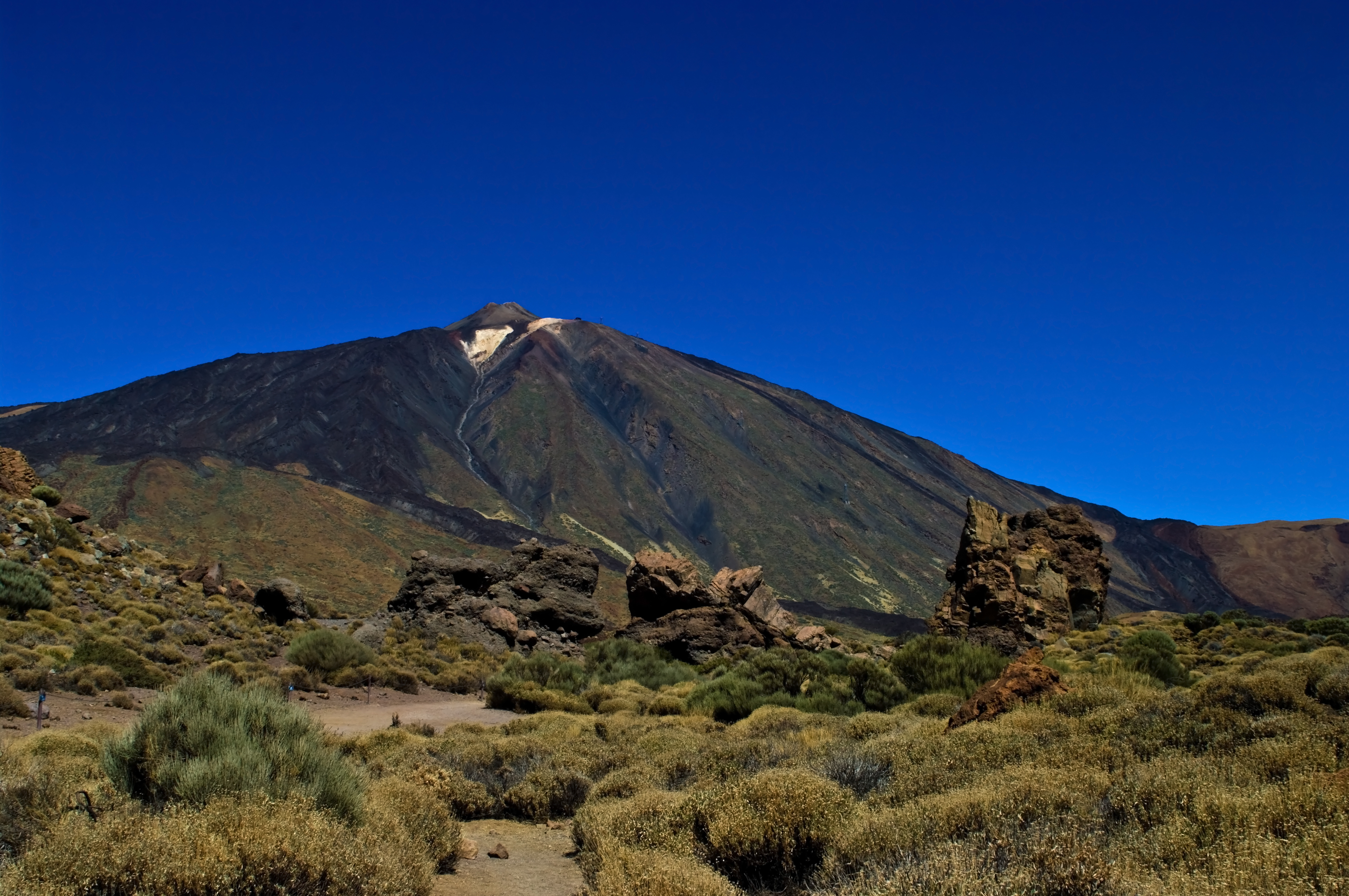 Mount Teide (Spanish: Pico del Teide) - a volcano on Tenerife in the Canary Islands